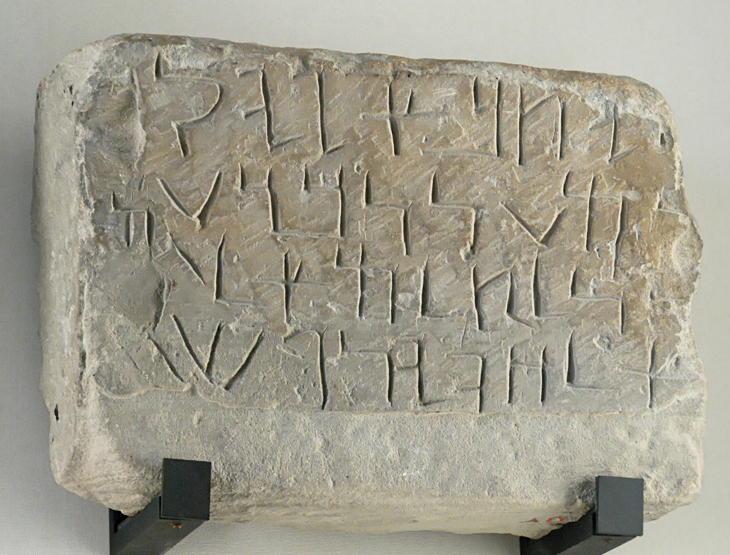 Stele with dedicatory Aramaic inscription to the god Salm. Sandstone, 5th century BC. Found in Teima, Northwestern Arabia.